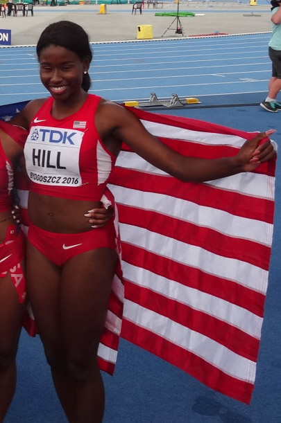 2016 IAAF World U20 Championships in Bydgoszcz, 4x100m relay women final